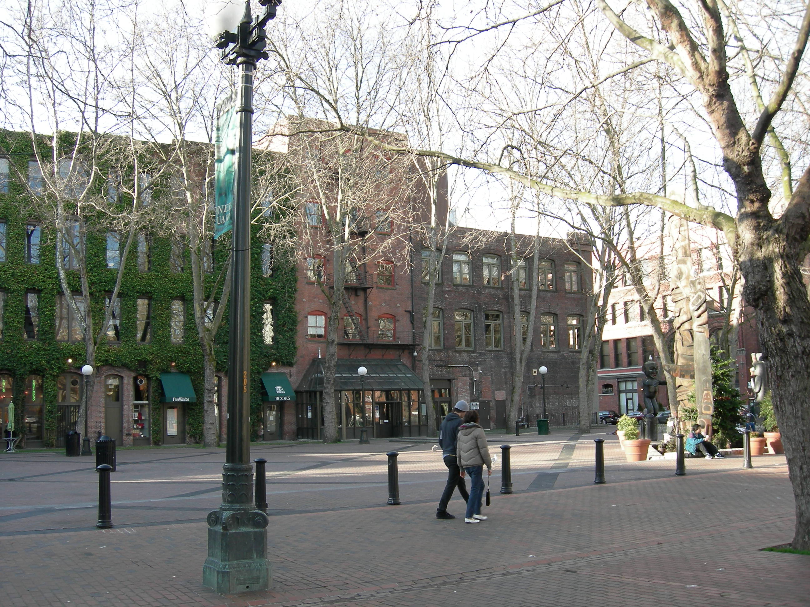 Occidental Park, Pioneer Square neighborhood, Seattle, Washington, USA. The view is toward the buildings that face onto First Avenue South. The leftmost is the Grand Central Hotel (a name from the Klondike Gold Rush era), also known as Squire Latimer Building / Squire Latimer Block / Grand Central on the Park (official name today), 216 First Avenue South. Built 1890. For more information about the building, see Summary for 216 1st AVE / Parcel ID 5247800390, Seattle Department of Neighborhoods.